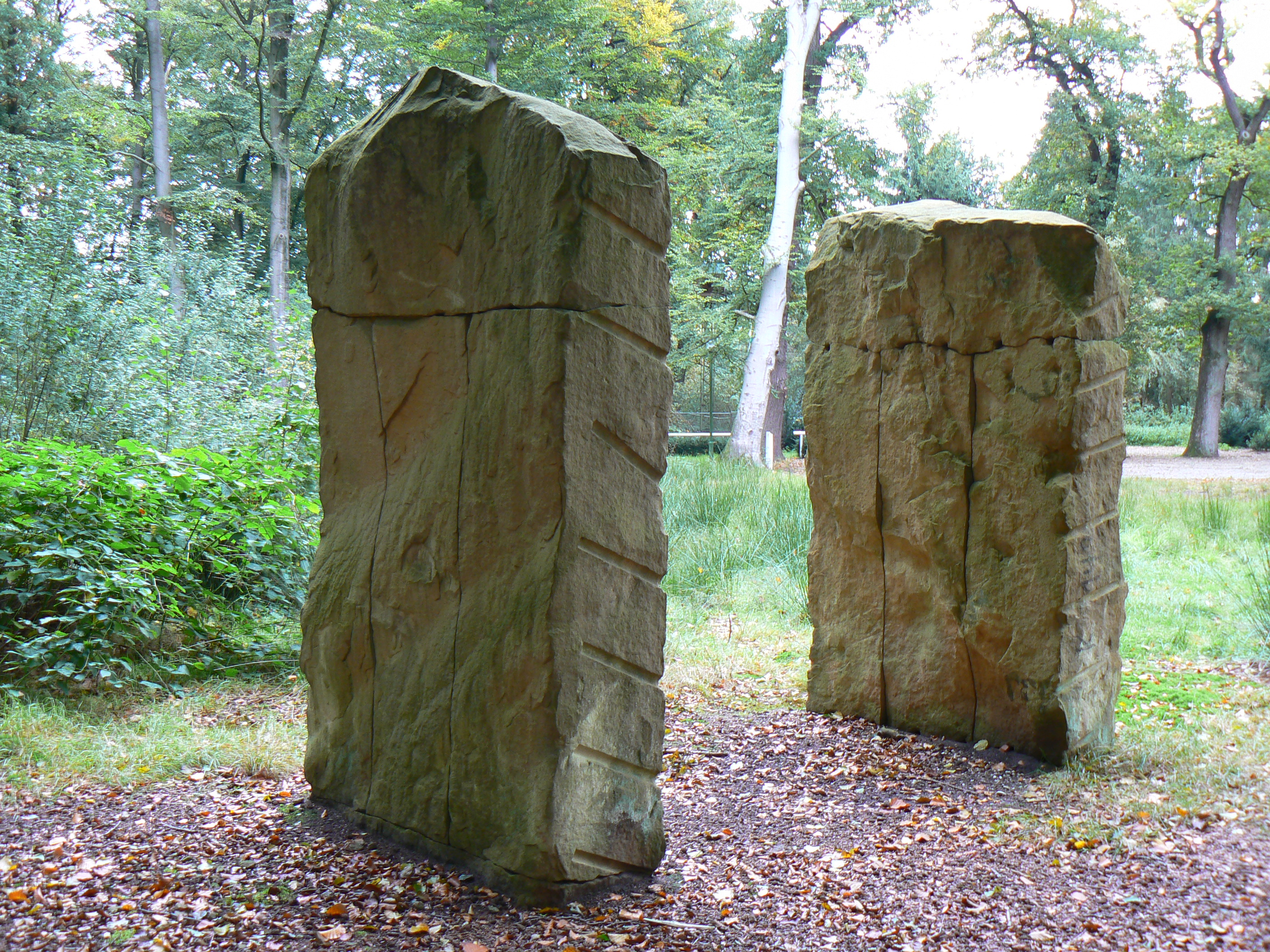 sculpture Untitled 1982 by Ulrich Rückriem in Nordhorn/Germany